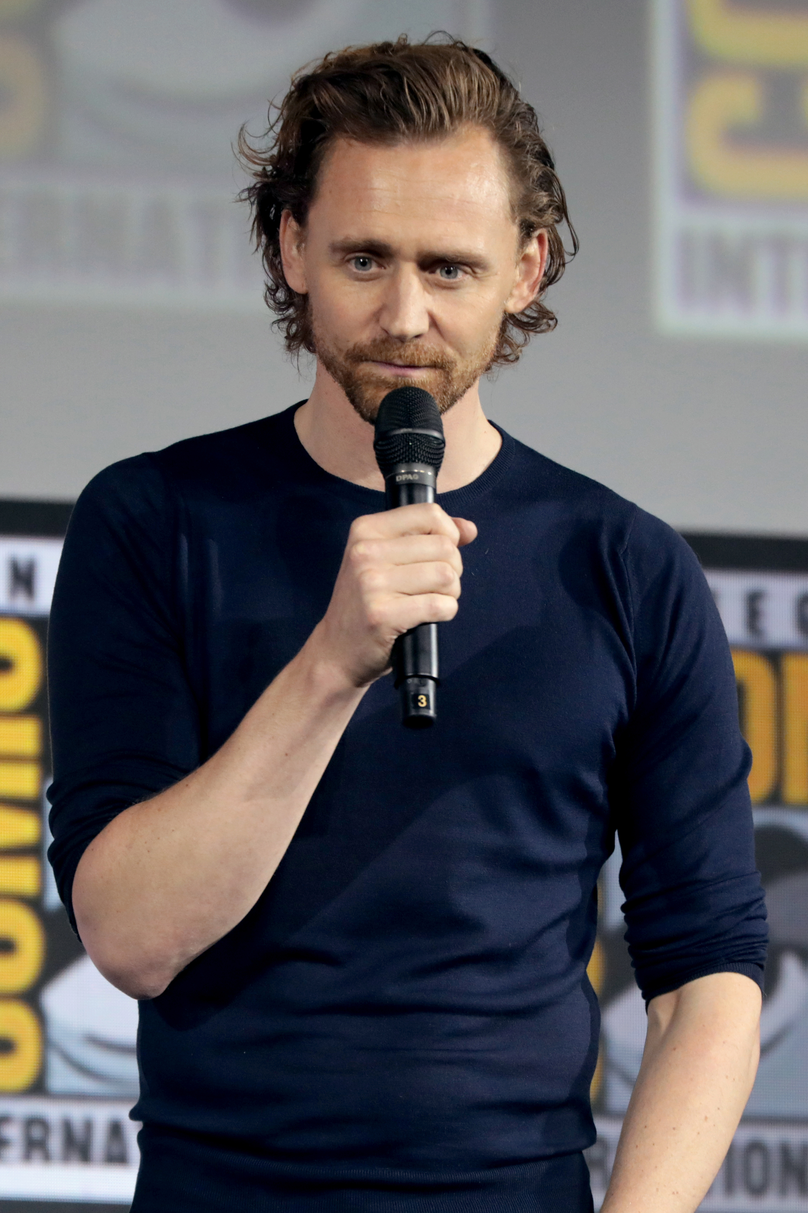 Tom Hiddleston speaking at the 2019 San Diego Comic Con International, for "Loki", at the San Diego Convention Center in San Diego, California.